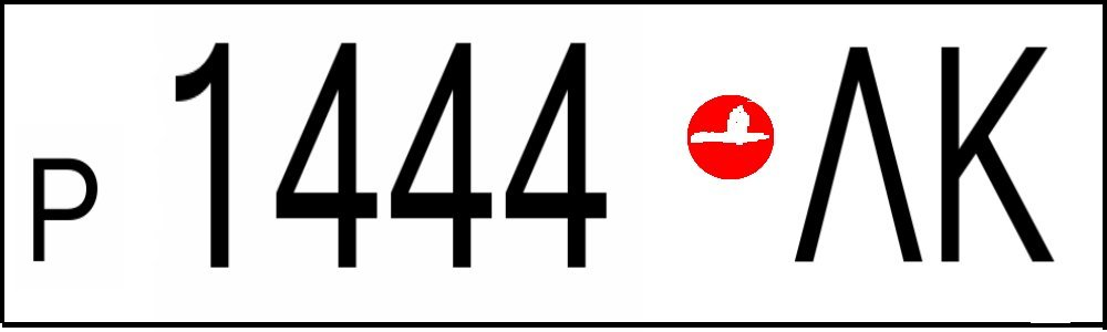 License plates used in Lithuanian SSR, in Soviet Union.